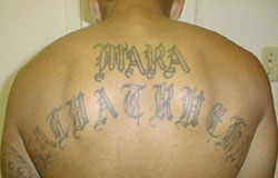 Image depicting member of MS13 gang. Work of the Federal Bureau of Investigation (FBI). Public Domain.